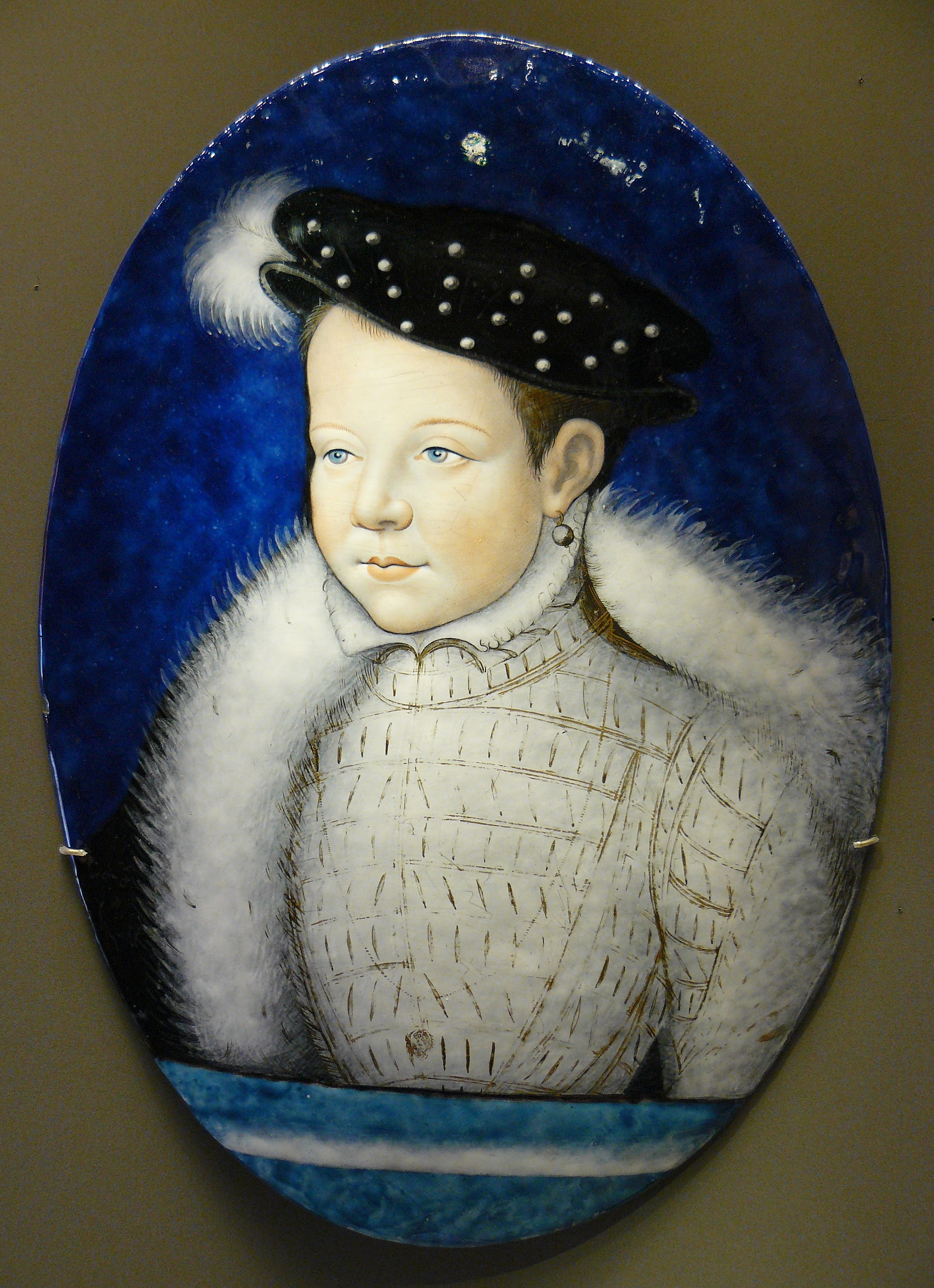 Portrait of the Future François II attributed to Léonard Limosin, c. 1553, enamel painted on copper